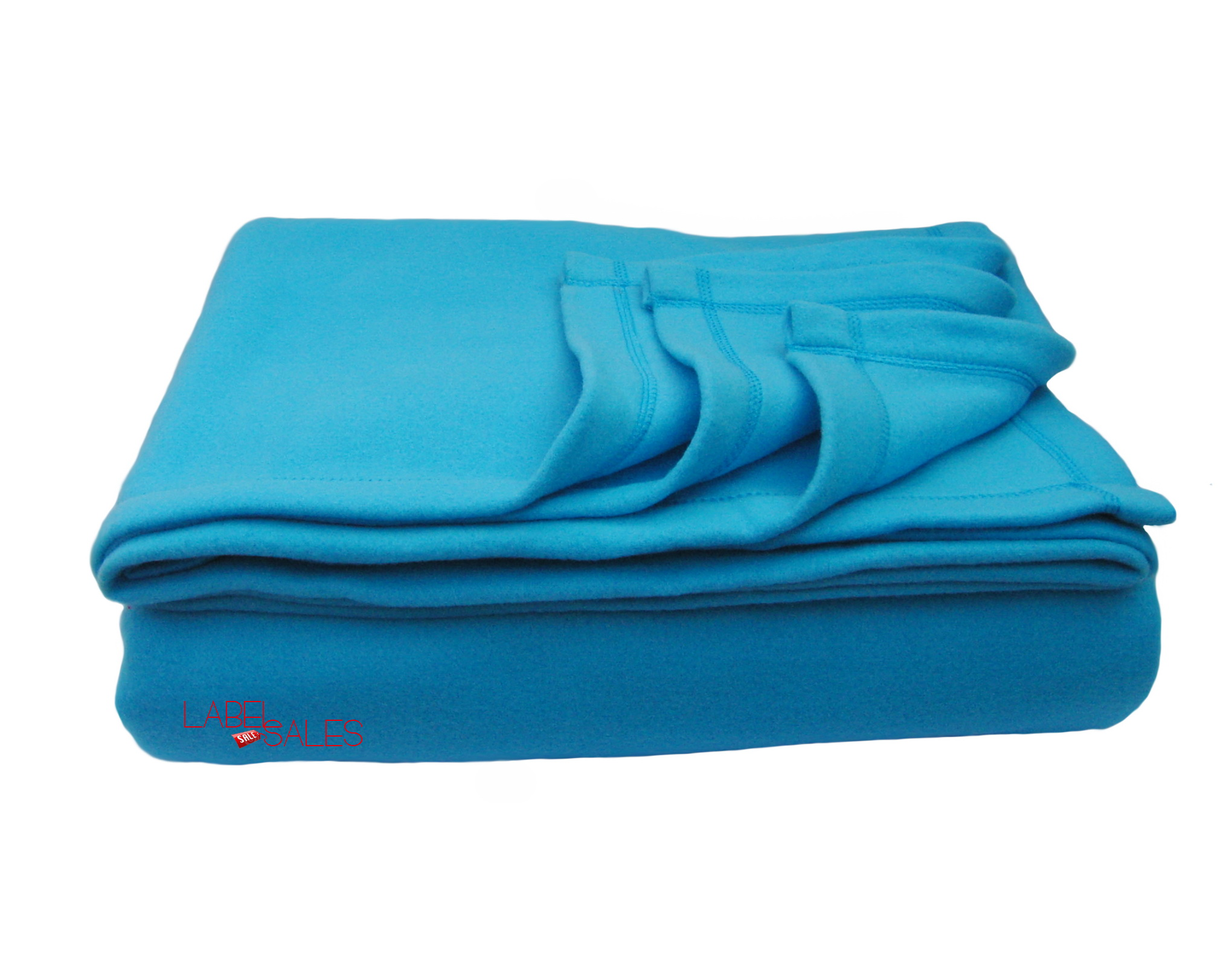 Blankets.